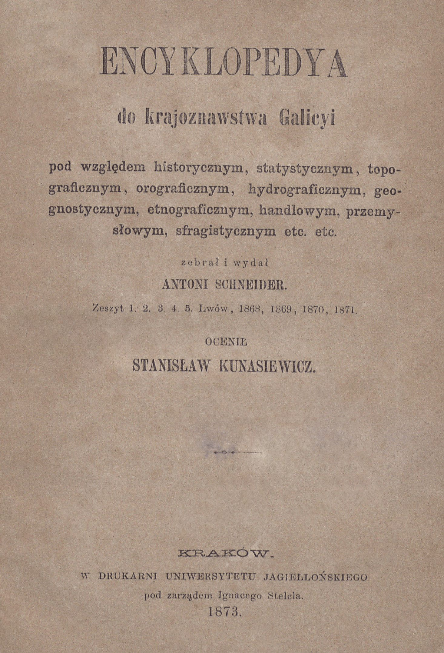 Encyklopedya do krajoznawstwa galicyi.